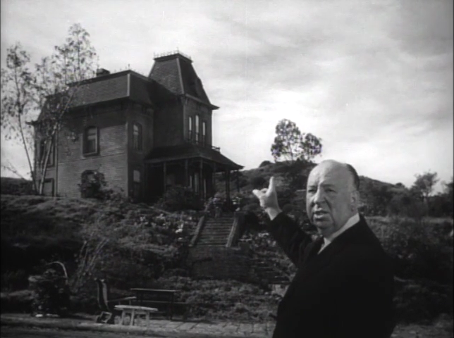 Alfred Hitchcock showing Norman Bates' house, in Psychos trailer